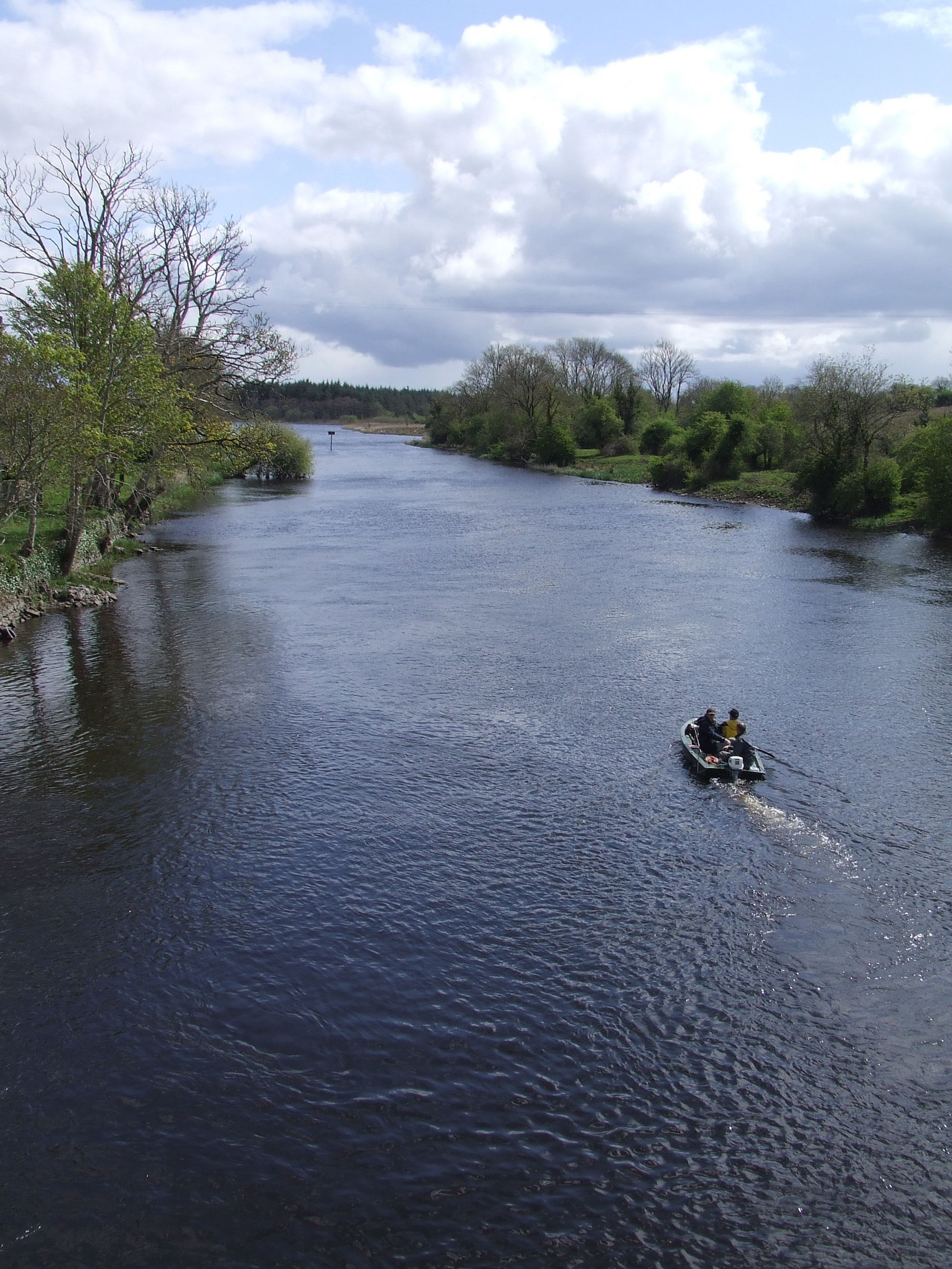 Looking downriver from the bridge over the Shannon at Drumsna, County Leitrim. Fishermen in a dinghy.